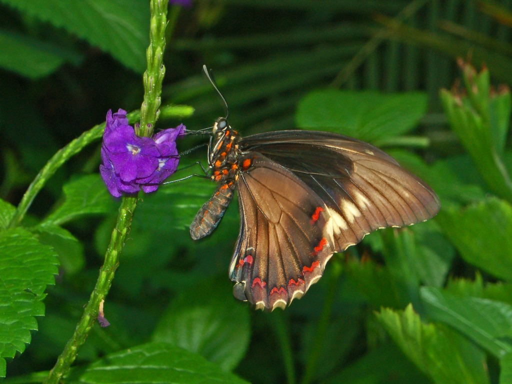 Battus polydamas - Niagara Falls Conservatory